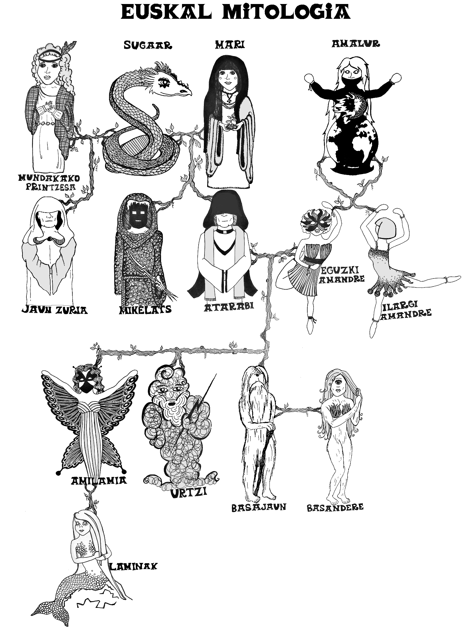 Family tree of Basque mythology